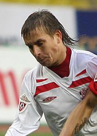 Russian footballer Valentin Filatov